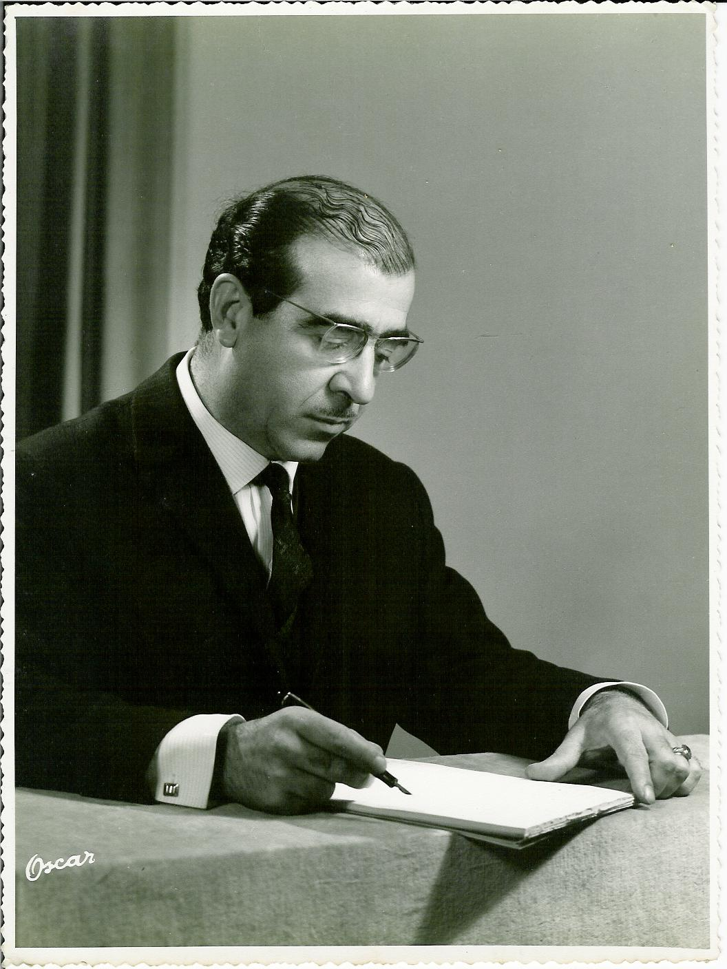 Agostinho Gomes, portuguese writer, in 1962.